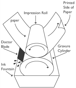 image i created for rotogravure